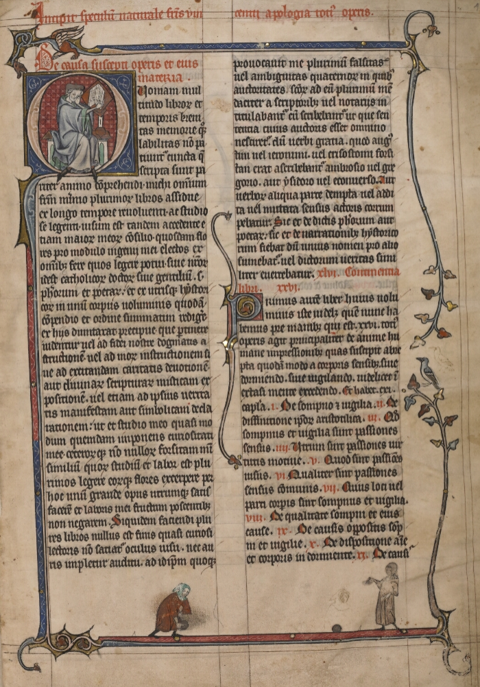 Vincent of Beauvais, Speculum naturale, lib. 22, f. 001, manuscript from Bonne-Espérance Abbey (Belgium).